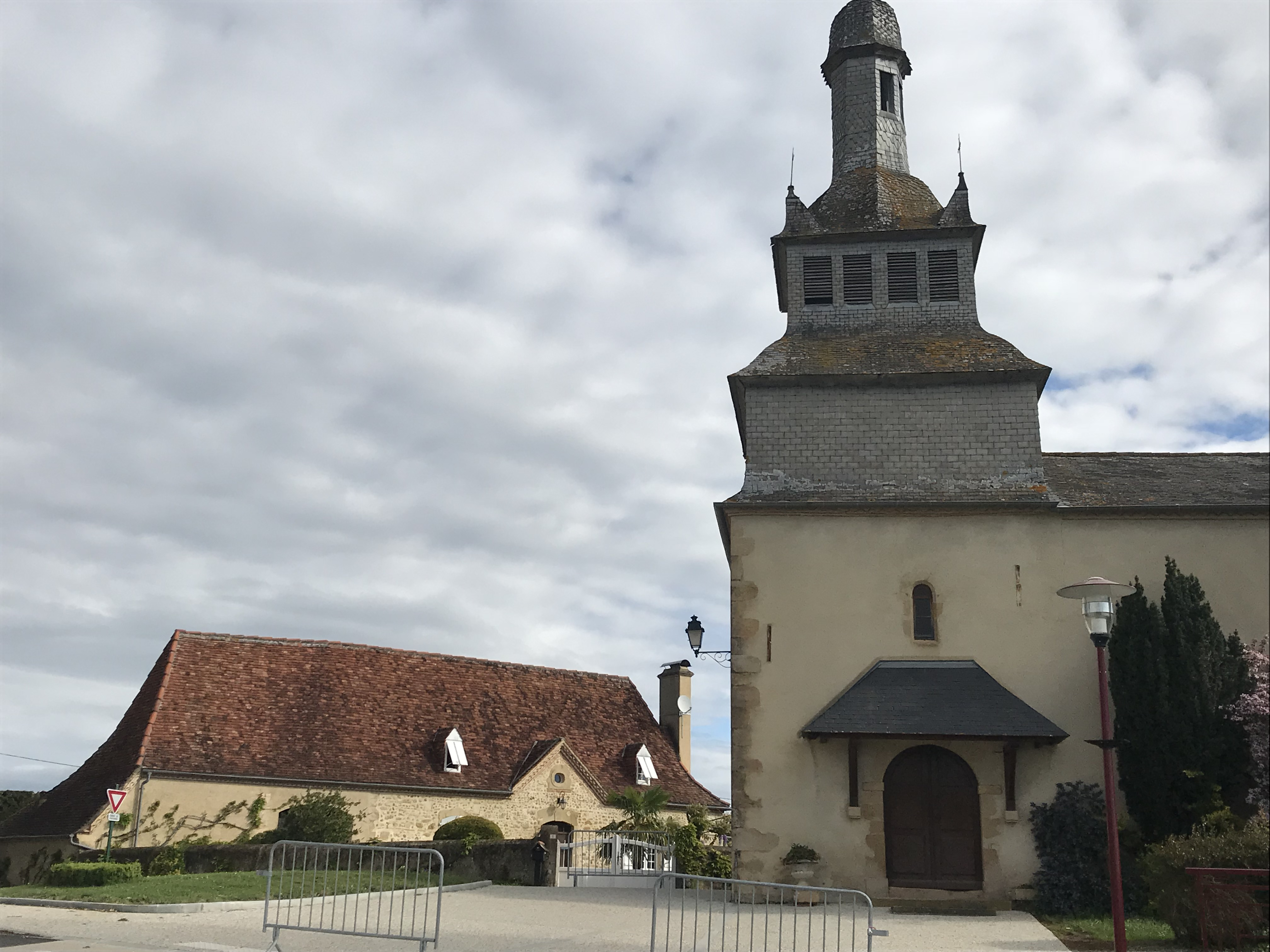 Centre of Vialer (64, France) with its church